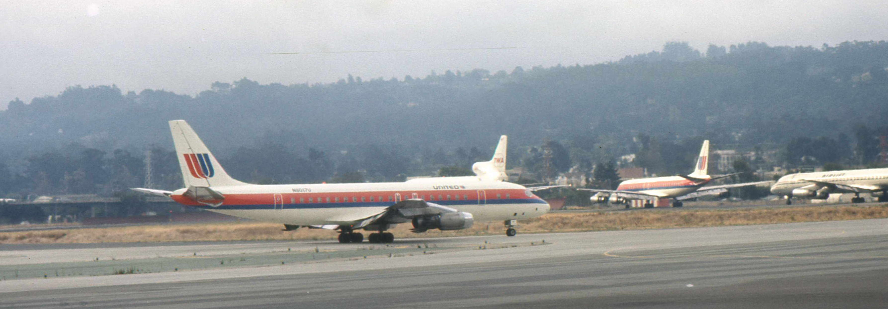 First flight on October 9, 1959 and delivered to United on December 5, 1959 name “Mainliner James Doolittle”. Sold to Boeing Commercial Air Transport Sales on February 1978. Leased to Notombi International in October 1978 and returned from leasing in April 1979. Delivered to Tropical Aircraft Leasing in June 1979 and converted in DC-8-21(F) in August 1979 named “Peggy”. Withdrawn from use and stored at Fort Lauderdale-Hollywood International Airport in January 1981 and broken up.